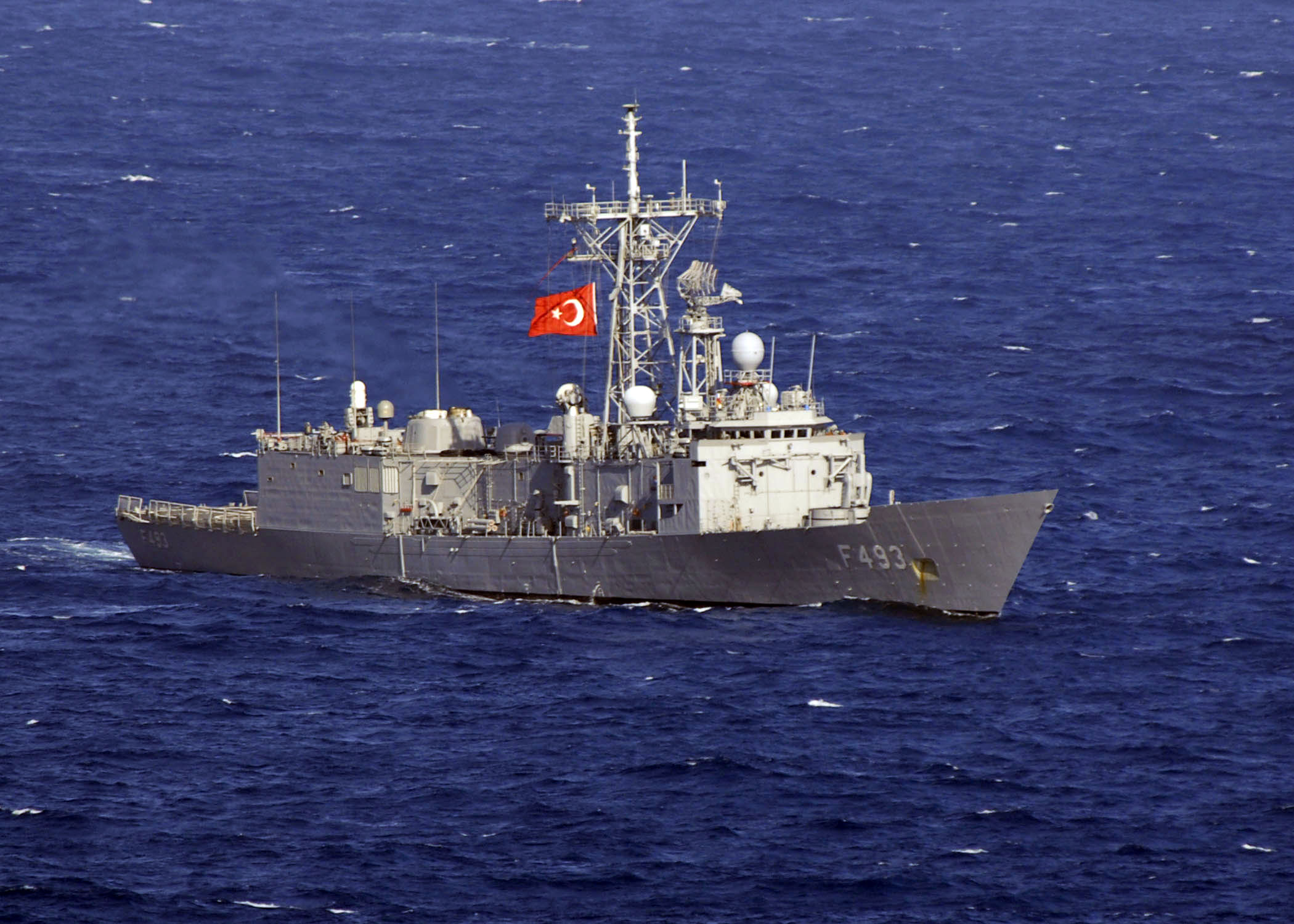 The Turkish frigate TCG Gelibolu (F 493) transits the Mediterranean Sea during Phoenix Express (PE 08). PE-08 is the third annual exercise in a long-term effort to improve regional cooperation and maritime security. The principal aim is to increase interoperability by developing individual and collective maritime proficiencies of participating nations as well as promoting friendship, mutual understanding and cooperation.